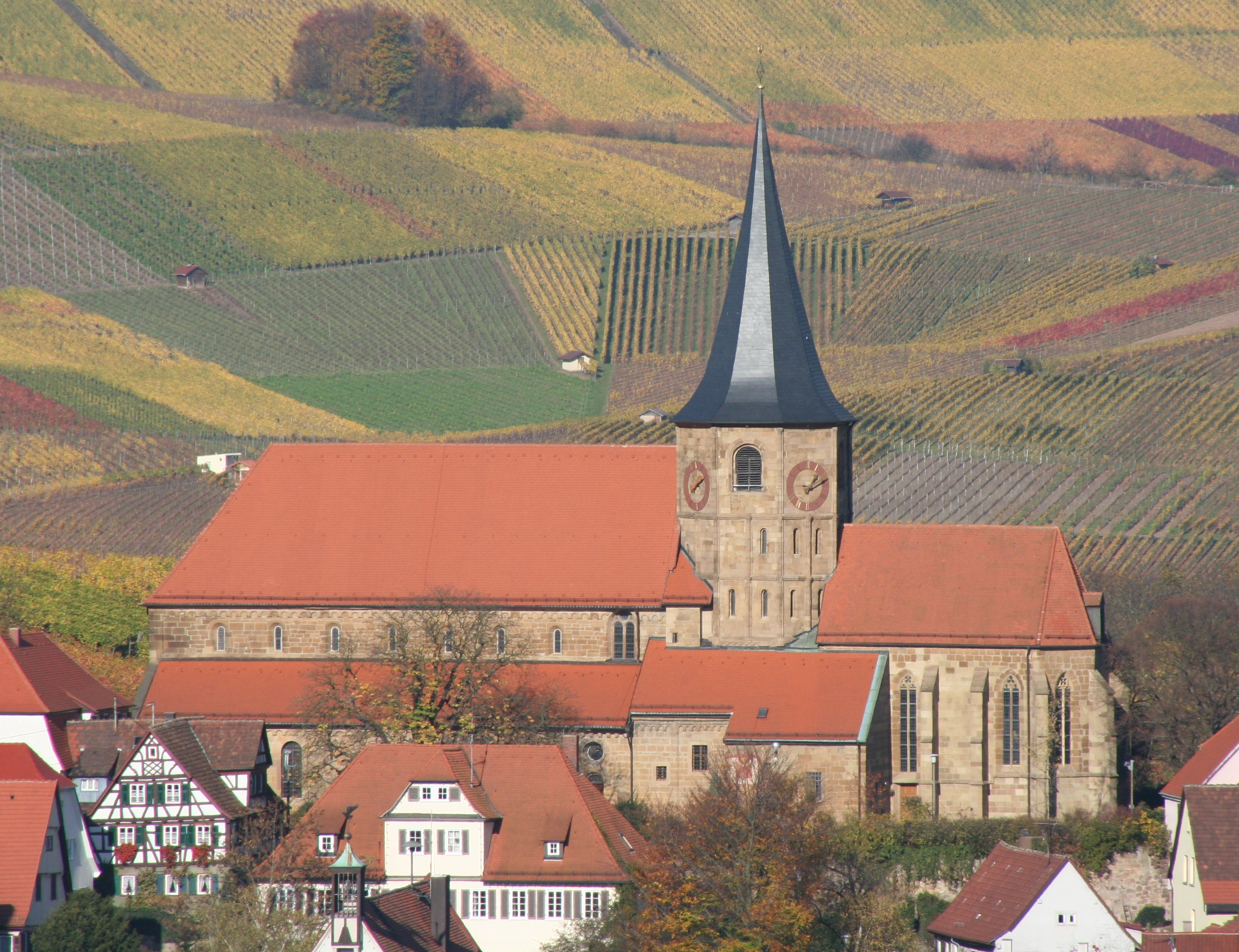 The Johanneskirche (St John's church) in Weinsberg from the South